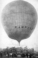 Argentine balloon El Pampero, flown by Jorge Newbery.